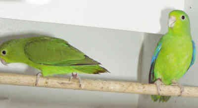 Blue-winged Parrotlet pets.